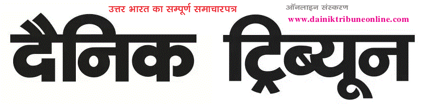 Dainik Tribune logo.